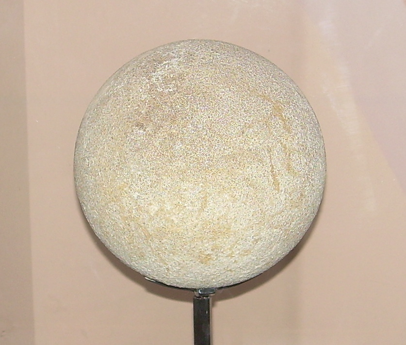 Photograph of a fossil cast of a Saltasaurus loricatus egg taken at the North American Museum of Ancient Life.